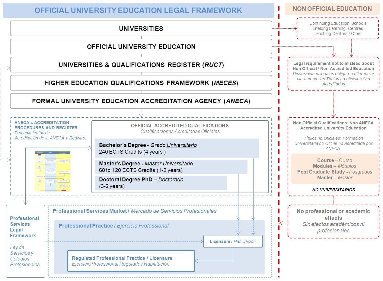 Spanish Official University Education Legal Framework - Official University Qualifications, Accreditation and Professional Practice Legal Framework in context with non official studies.